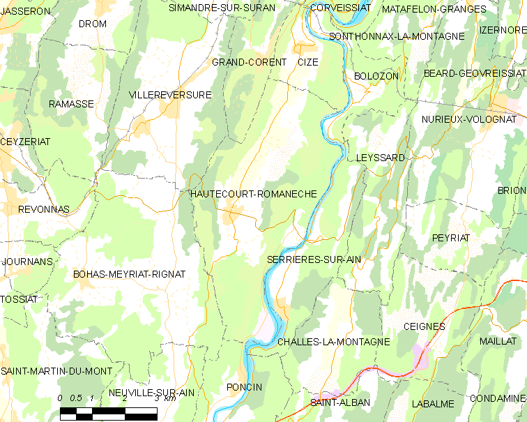 Map of French commune: Hautecourt-Romanèche Map commune FR insee code 01184.png